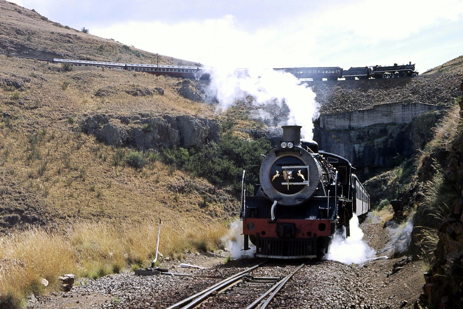 Railway line Aliwal North - Lady Grey - Barkly East: A steam train in the 8th reverse station. Above behind this train another steam train approaches the 7th reverse station.